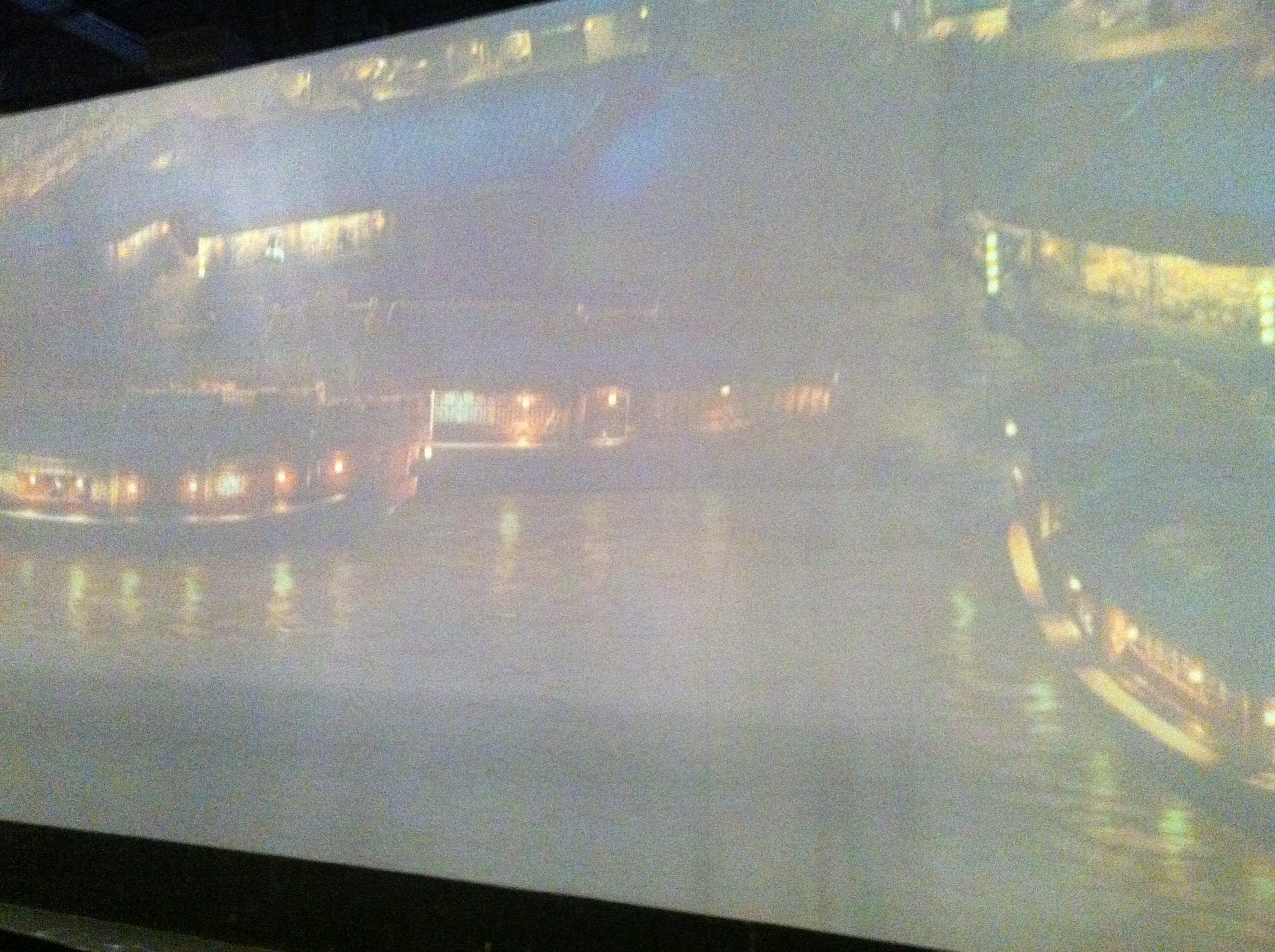 The animation based on the historic Chinese painting Along the River During the Qingming Festival in Shanghai Expo Museum, taken on December 24, 2014.